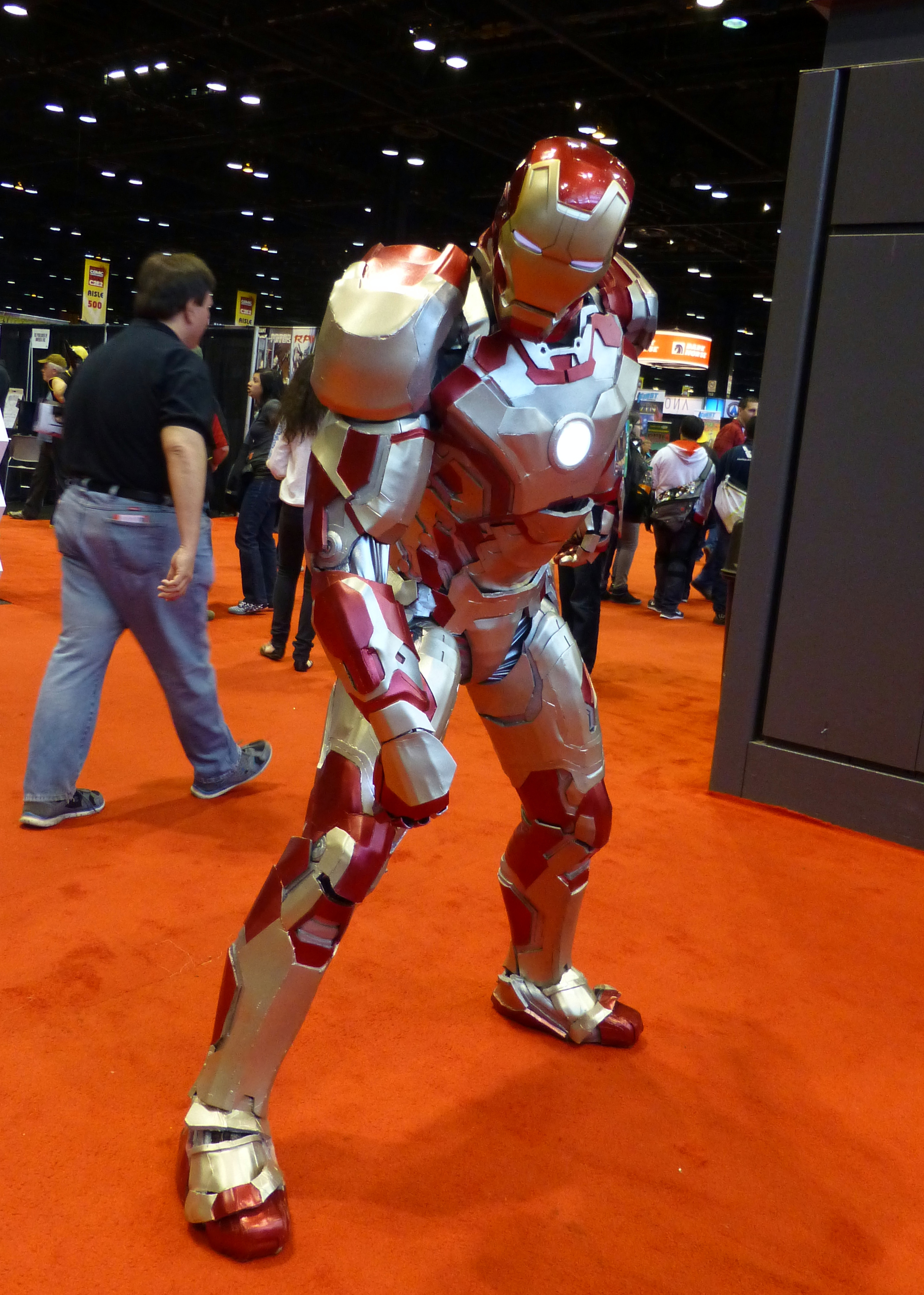 Iron Man Cosplay at Chicago Comic & Entertainment Expo (C2E2) 2014.